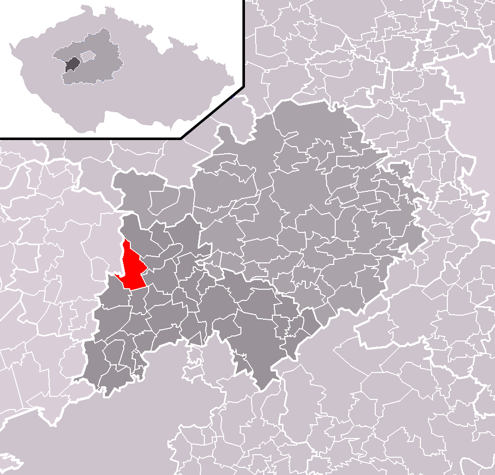 Location of Drozdov municipality within Beroun District and administrative area of Hořovice as a Municipality with Extended Competence.